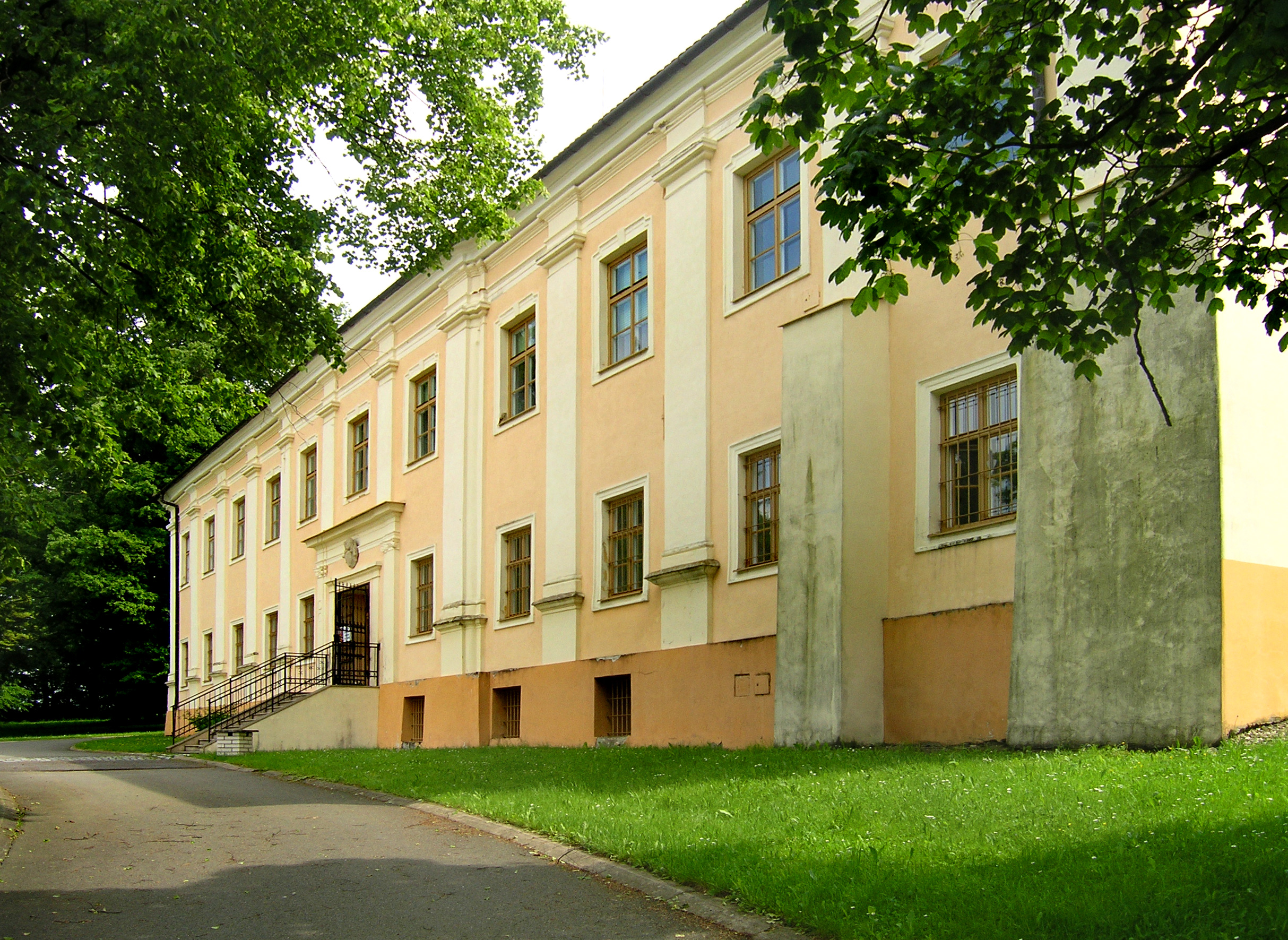 Castle in Klečůvka, part of Zlín, Czech Republic